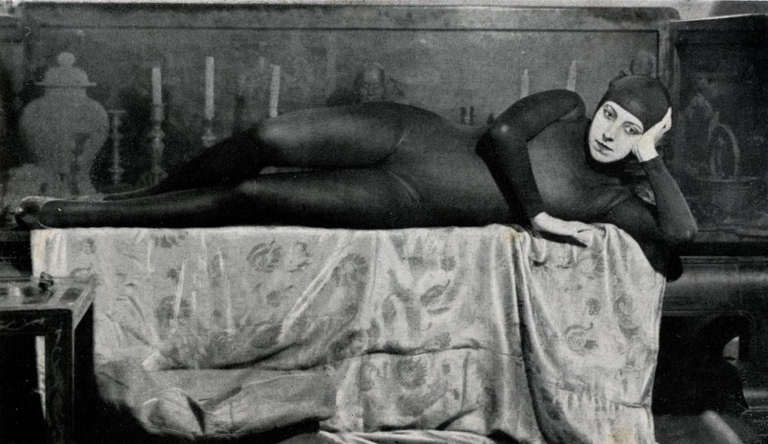 Screenshot from the 1915 film Les Vampires by Louis Feuillade